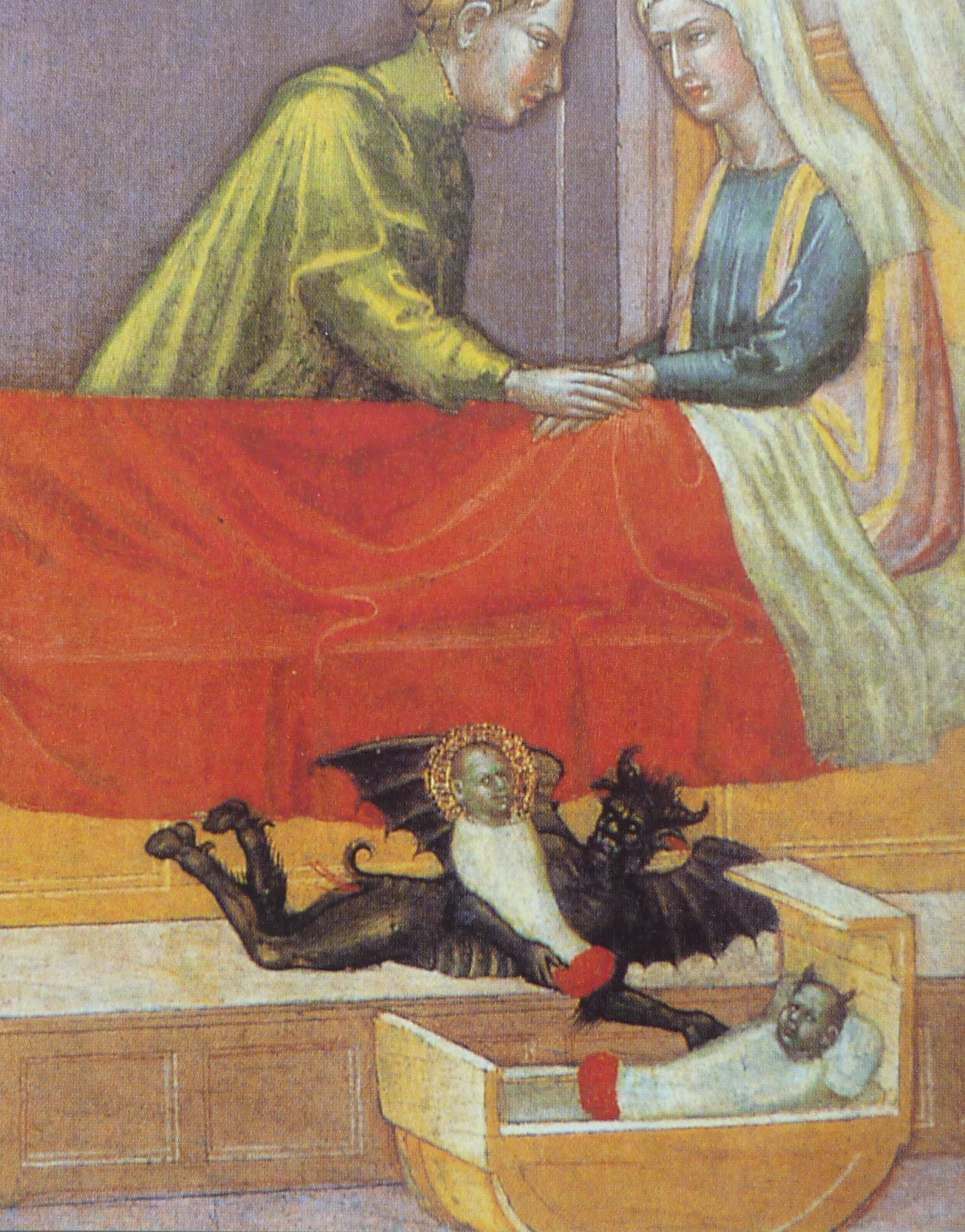 The devil exchanging a baby against a changeling.